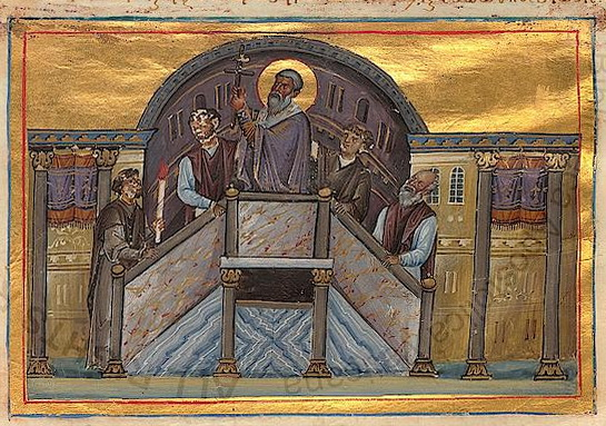 The Elevation of the Holy Cross. Menologion of Basil II. First quarter of 11th century. Rome, Biblioteca Apostolica Vaticana.